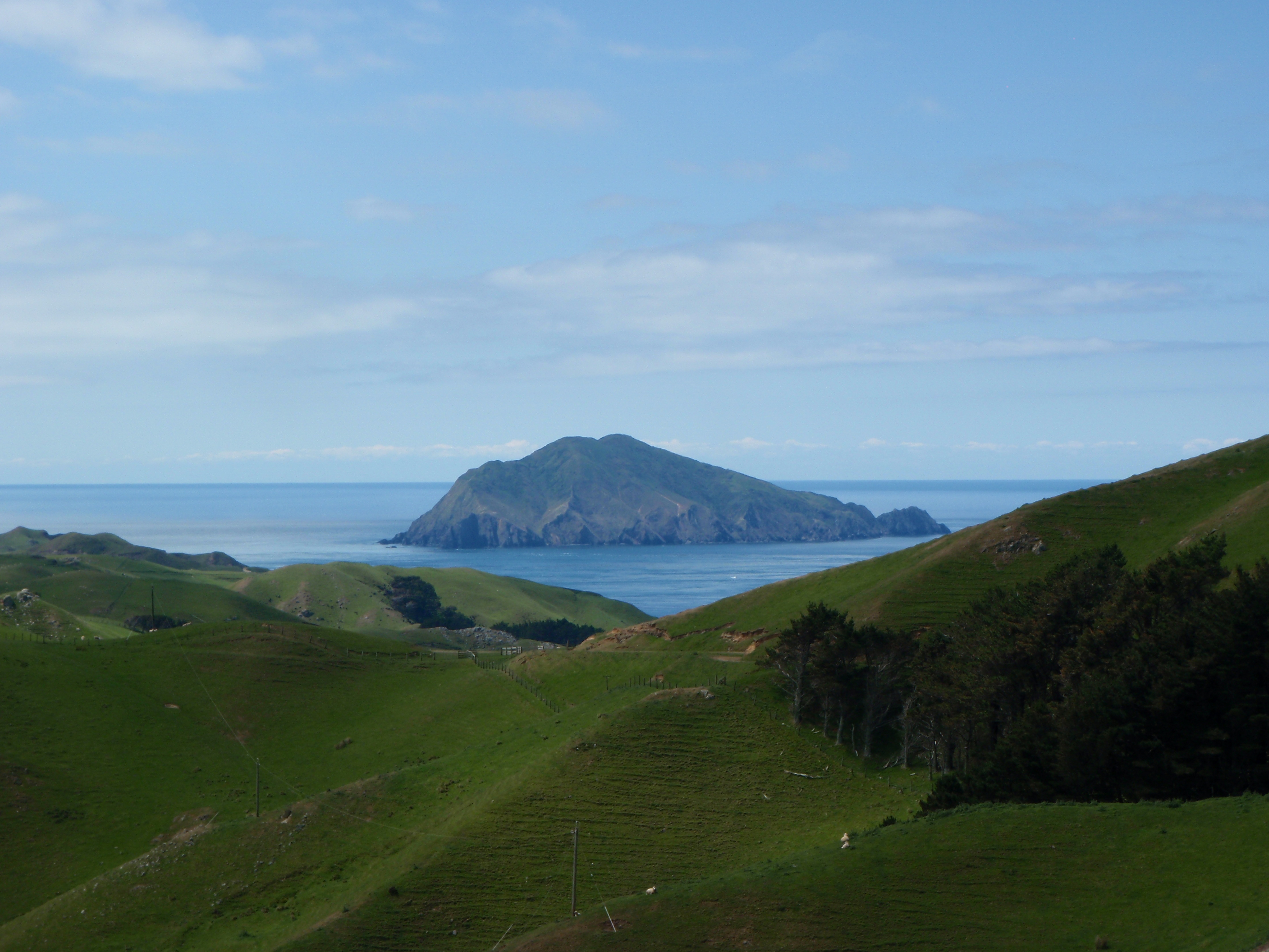 Stephens Island (Takapourewa), uninhabited, highest elevation 283m - viewed from Rangitoto ki te Tonga (D'Urville Island) & looking North-East. Farmland on d'Urville Island in the foreground.